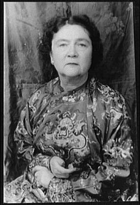 Marjorie Kinnan Rawlings, author of the novel "The Yearling"